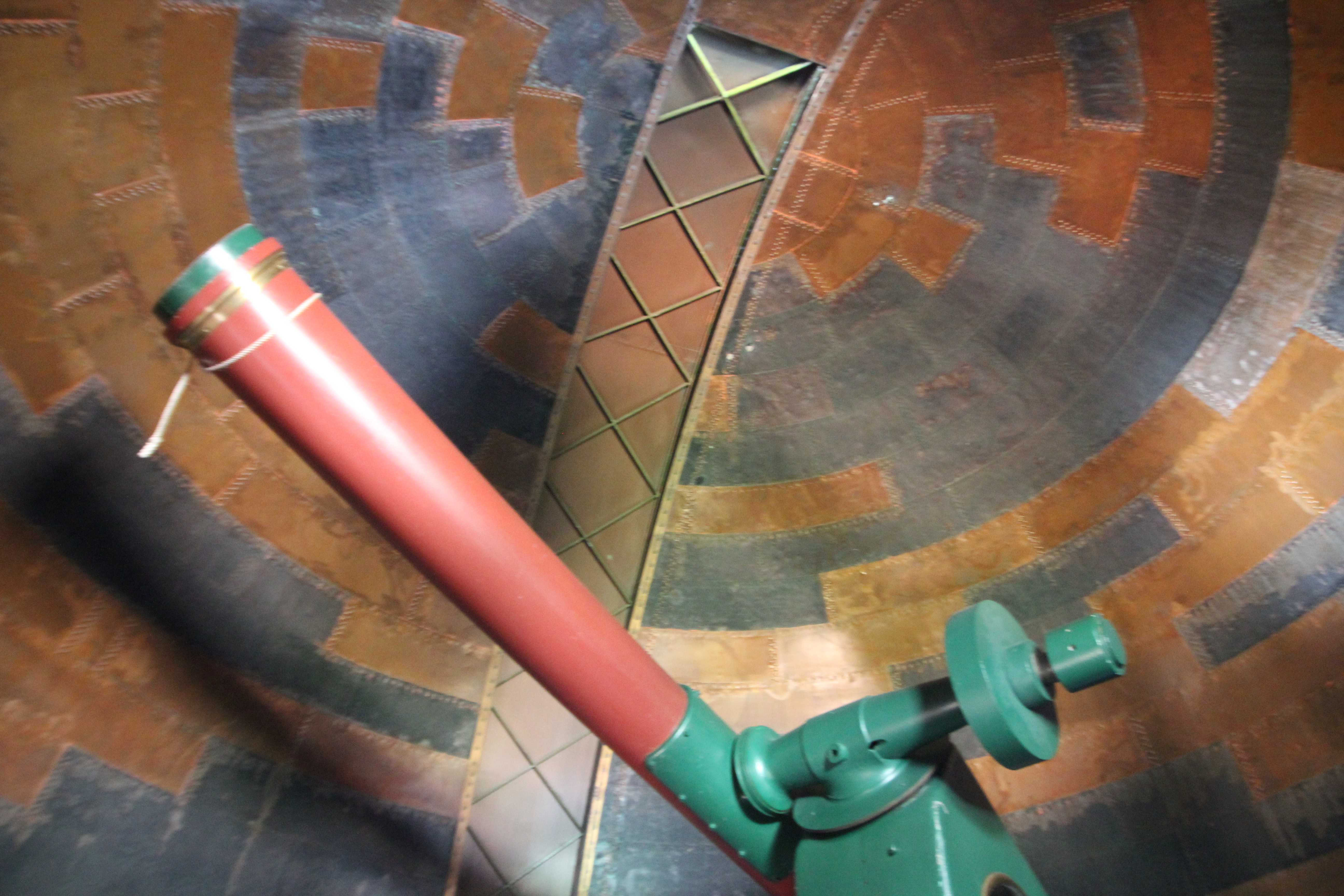 Oldest working telescope in Australia